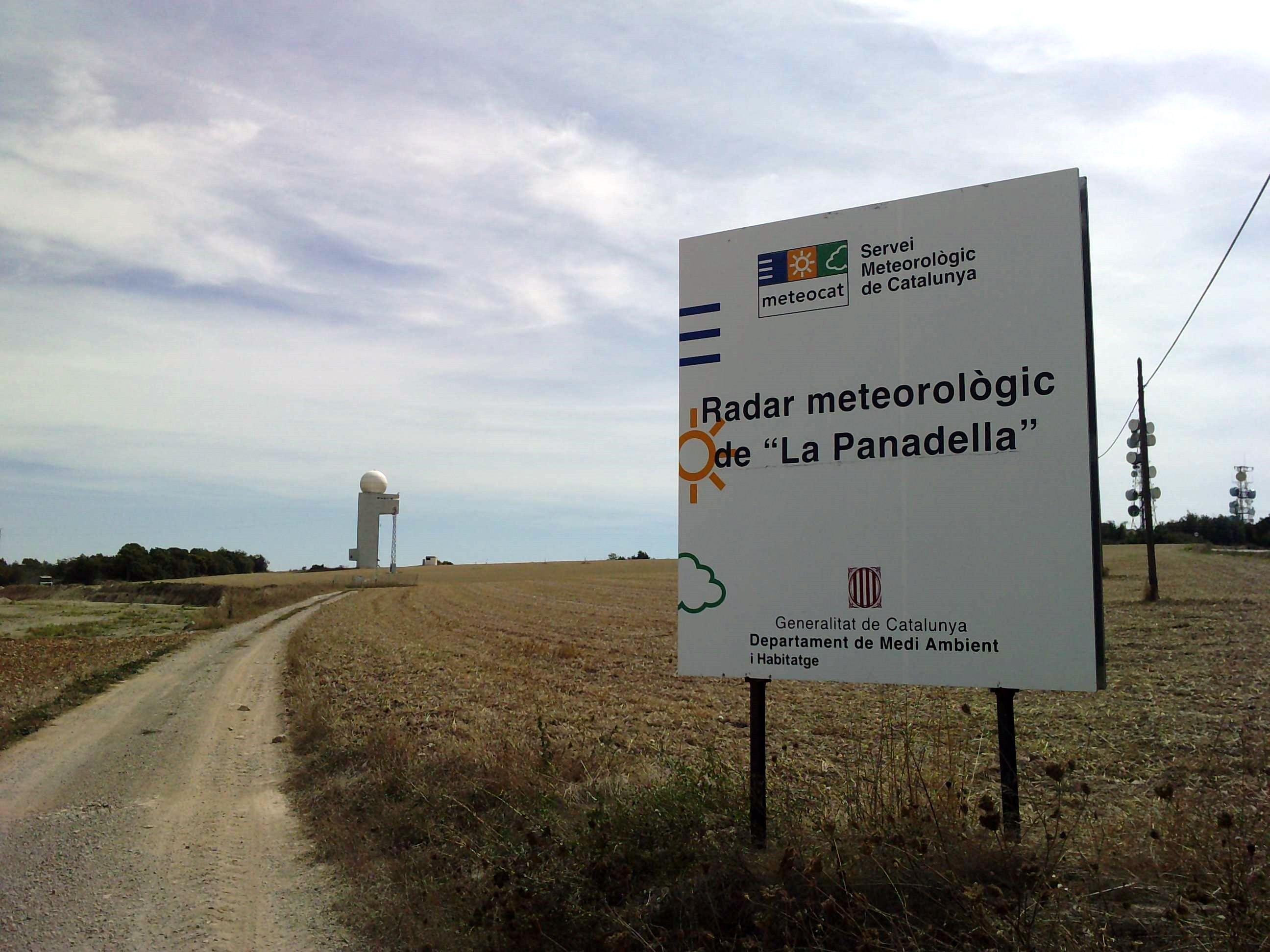 Weather Radar Tower at La Panadella, in Anoia comarque, Catalonia